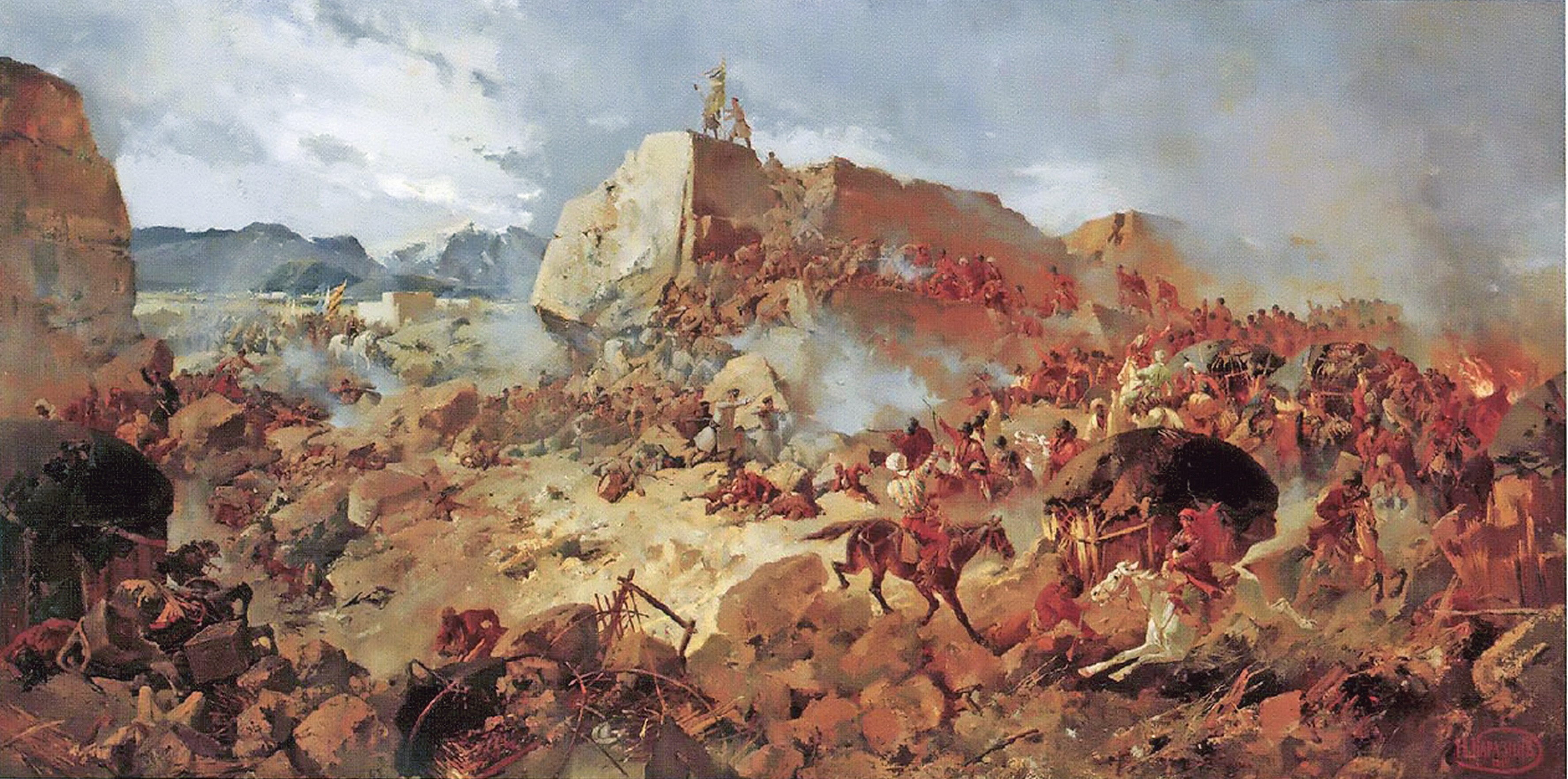 Oil painting depicting a Russian assault on the fortress of Geok Tepe during the siege of 1880-81